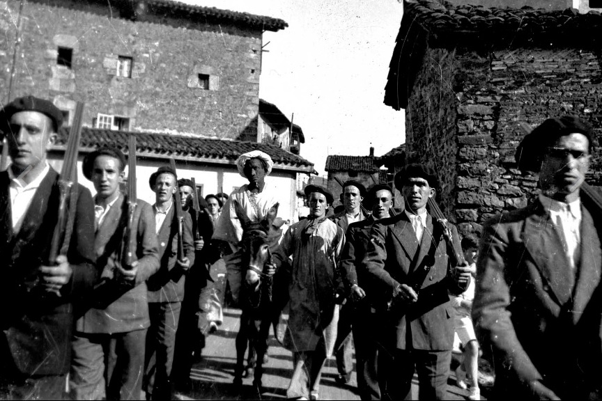 local feast, Anzuola, Spain, 1934